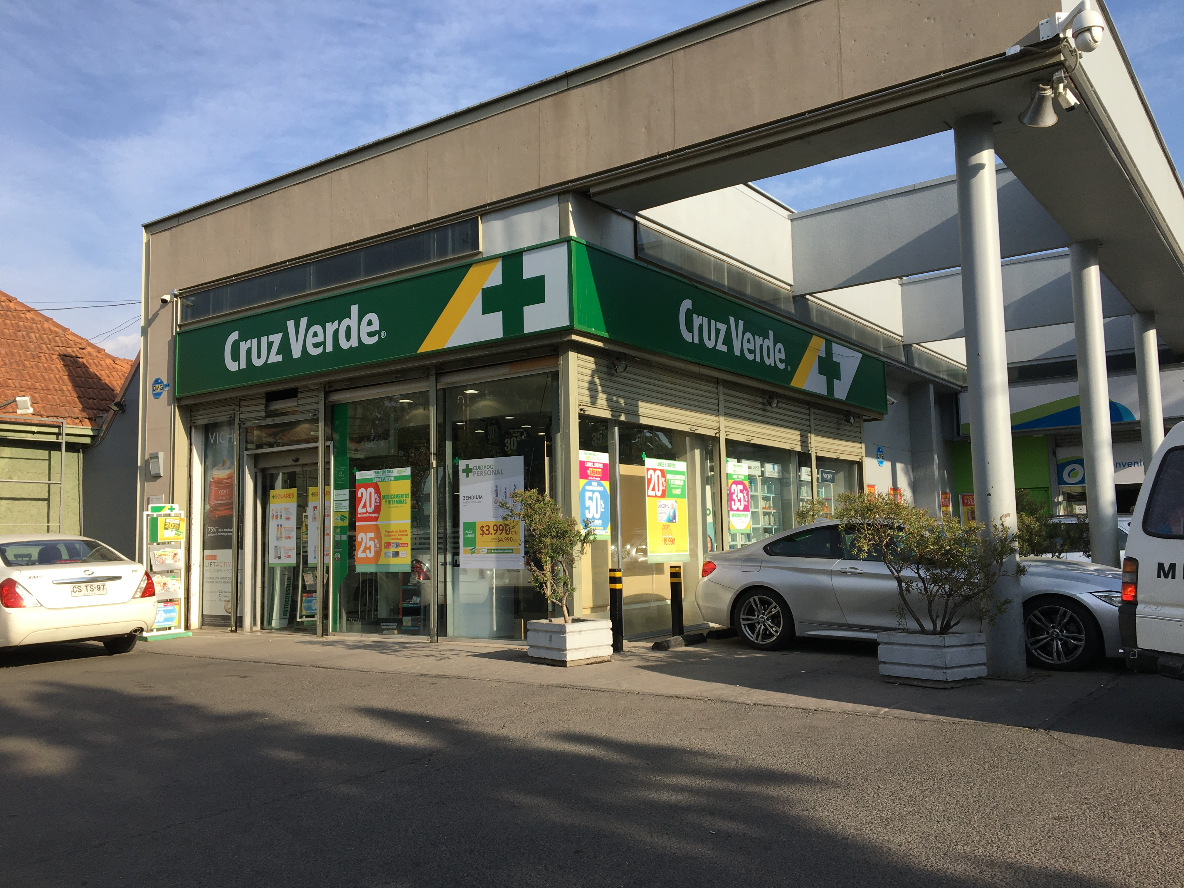 Pharmacy in Ñuñoa